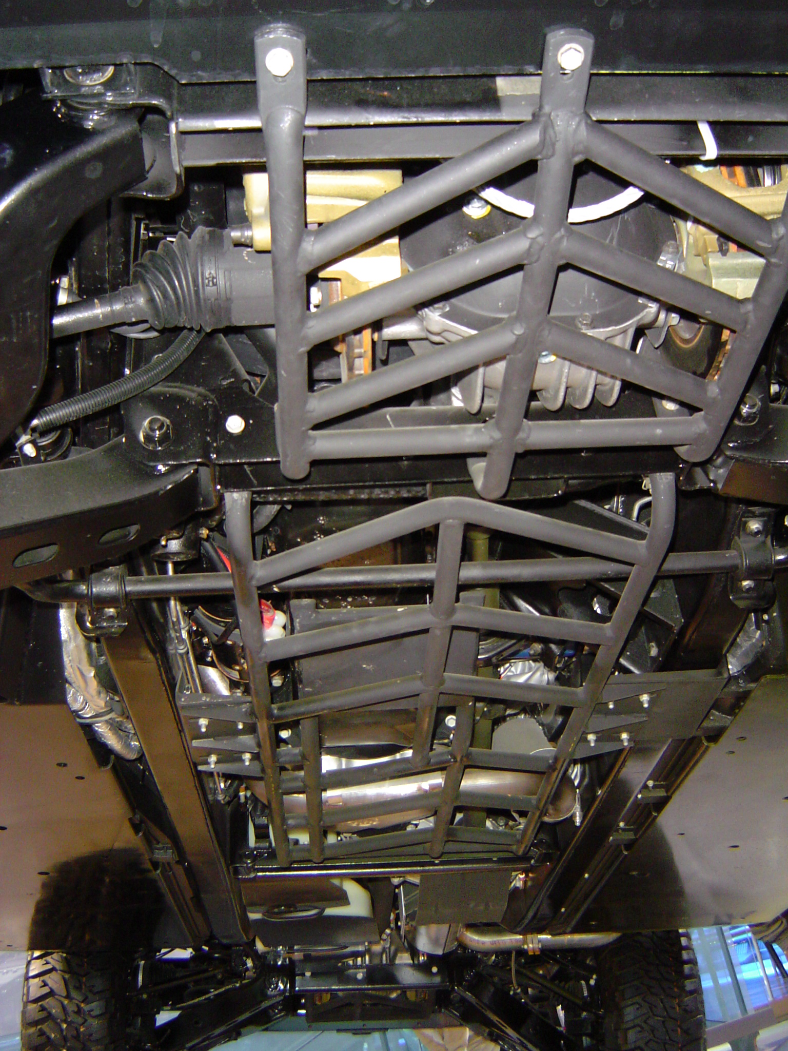 Hummer under carriage